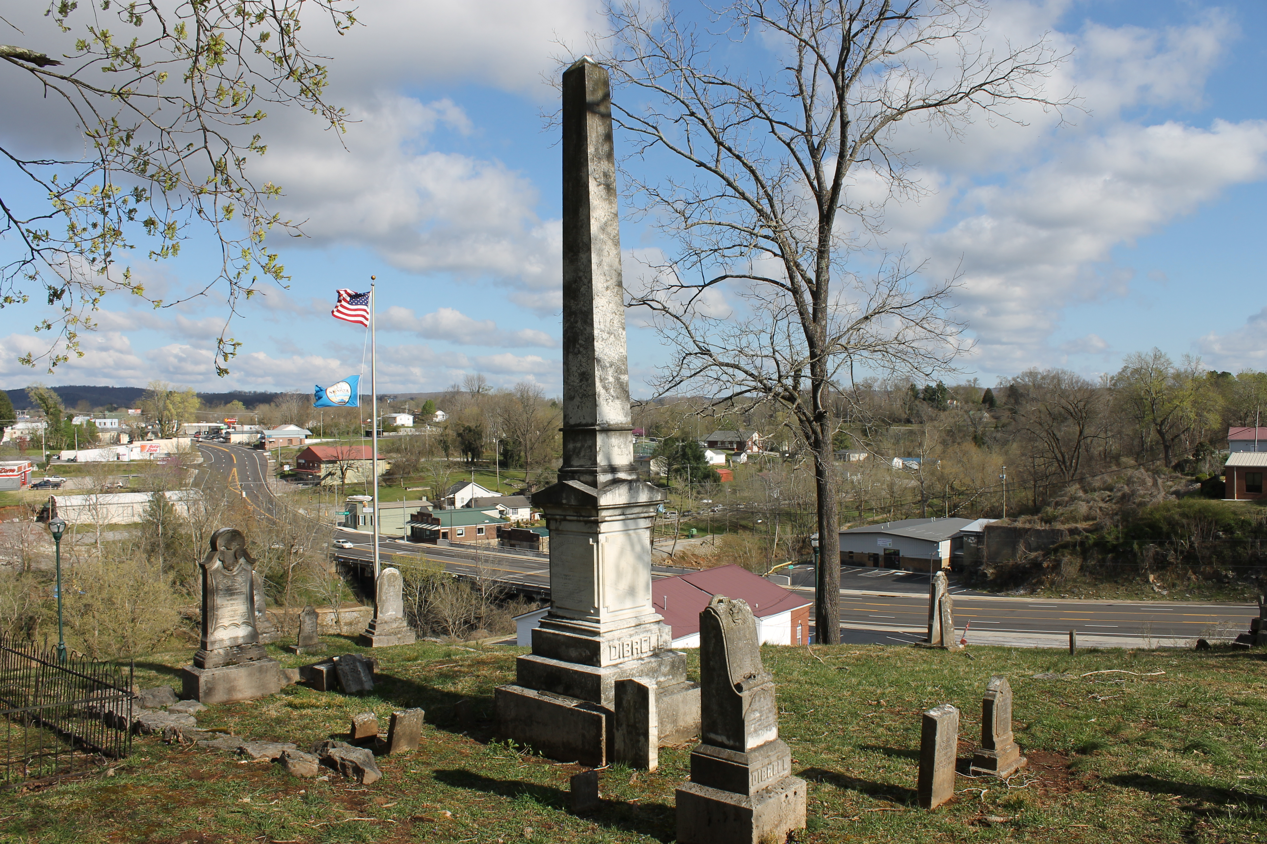 General Dibrell's grave, overlooking an area of downtown Sparta, Tennessee.